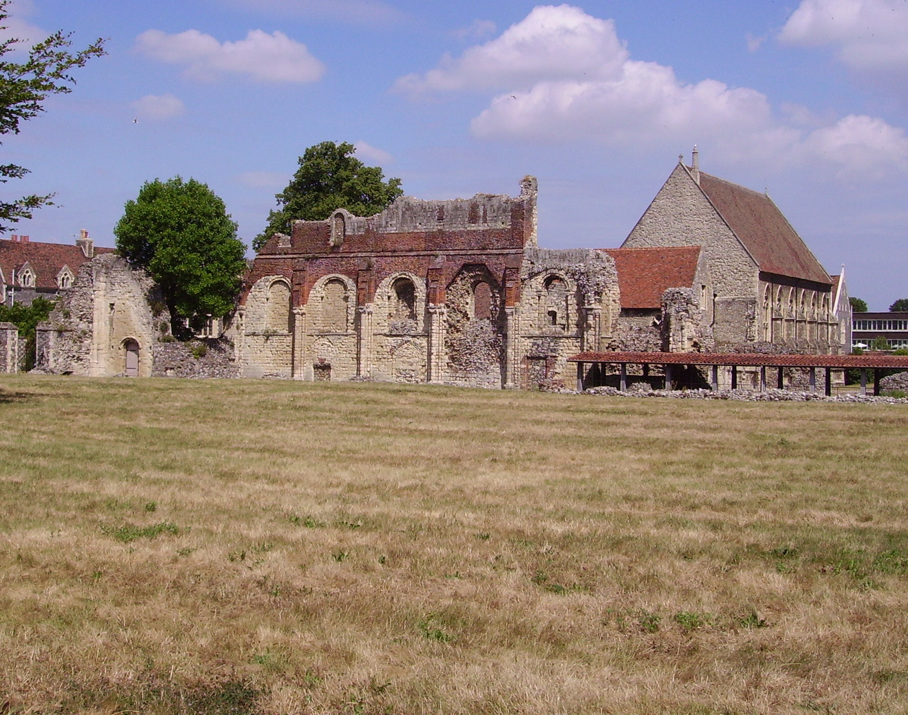 monastery in Canterbury in Kent, United Kingdom